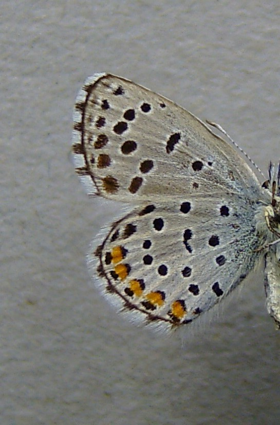 Pseudophilotes vicrama